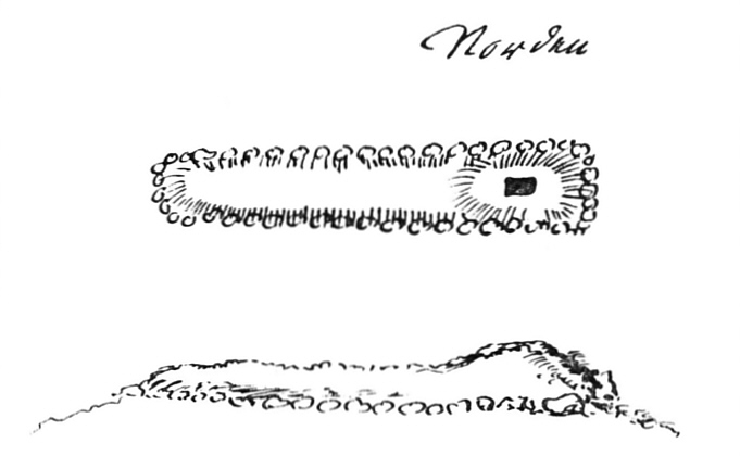 Drawing of the Dolmen near Ohrfeld.